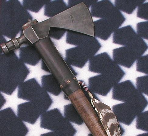 I, Mike Searson took this picture of my privately owned tomahawk and I release it to the public domain. This tomahawk is a pipe hawk forged by Ryan M. Johnson